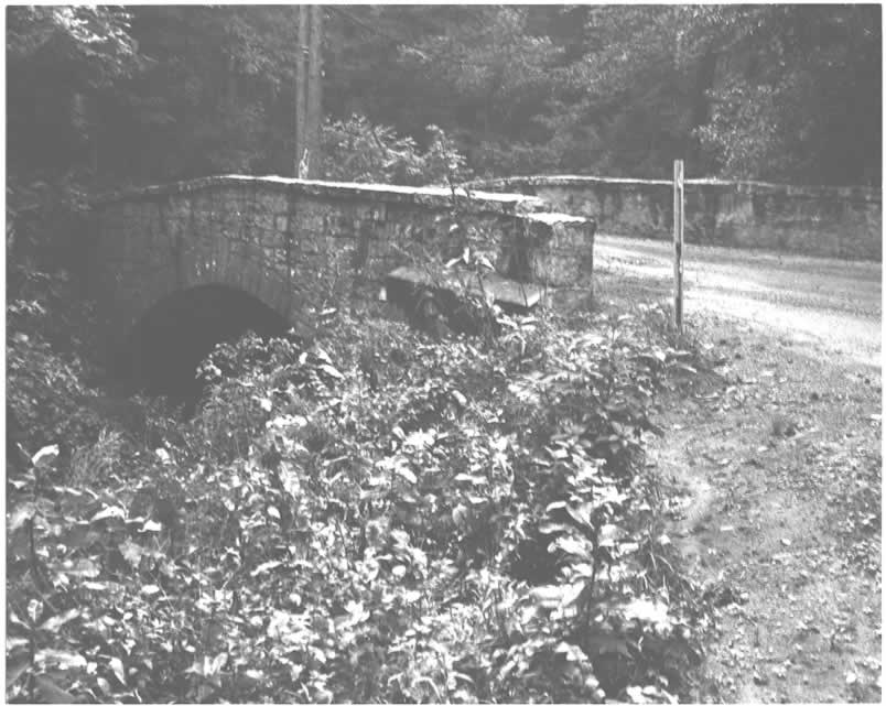 Side of the Bridge in Lykens Township No. 2, which carries Legislative Route 22033 over a tributary of Pine Creek near Fearnot in Lykens Township, Dauphin County, Pennsylvania, United States. Built in 1872, the bridge is listed on the National Register of Historic Places.